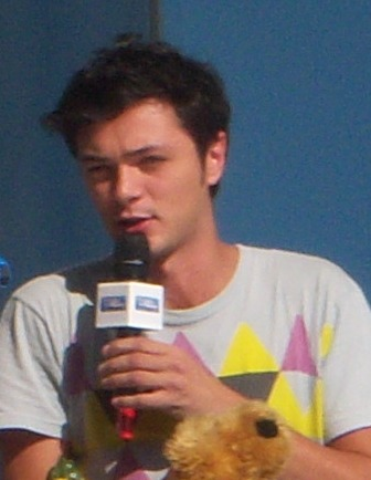 Carlo Pastore a TRL